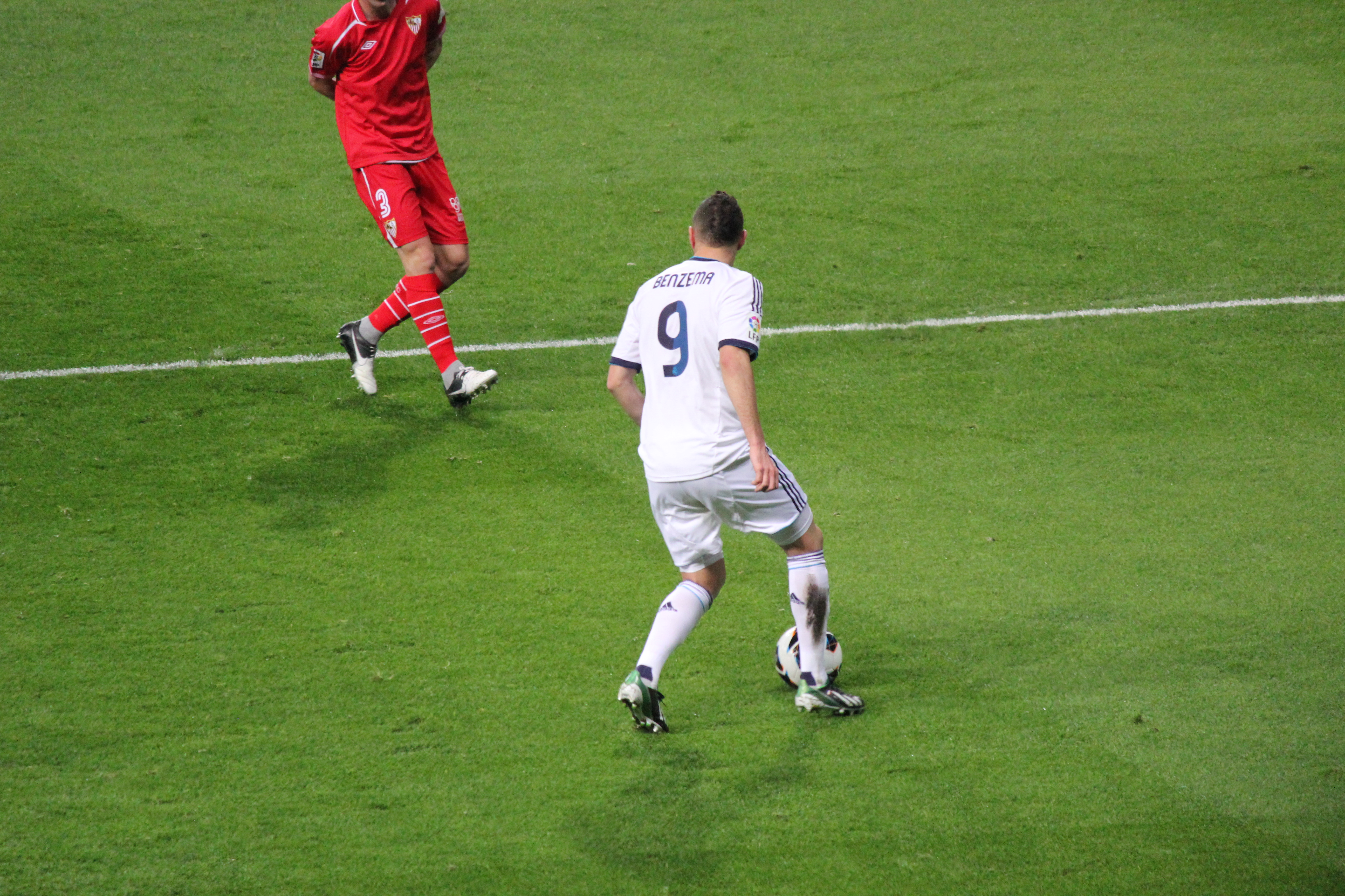 Real Madrid v Sevilla 10 February 2013 in a La Liga game at Real Madrid's home grounds.